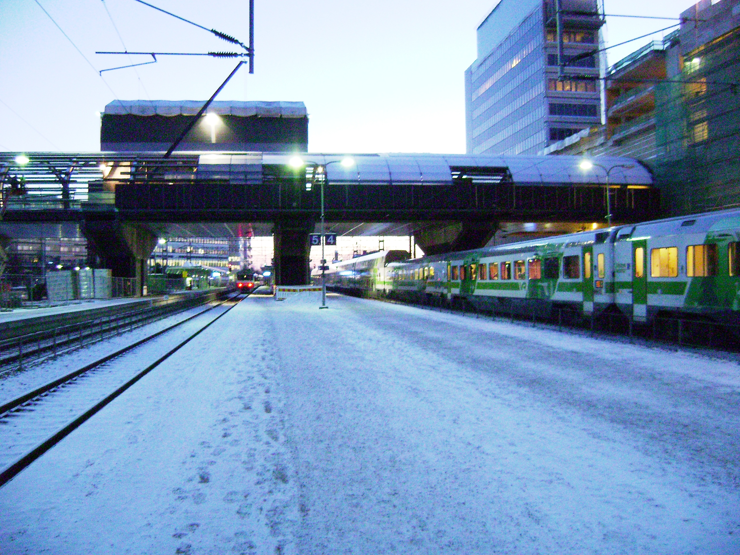 Tikkurila travel centre construction site in January 2014.